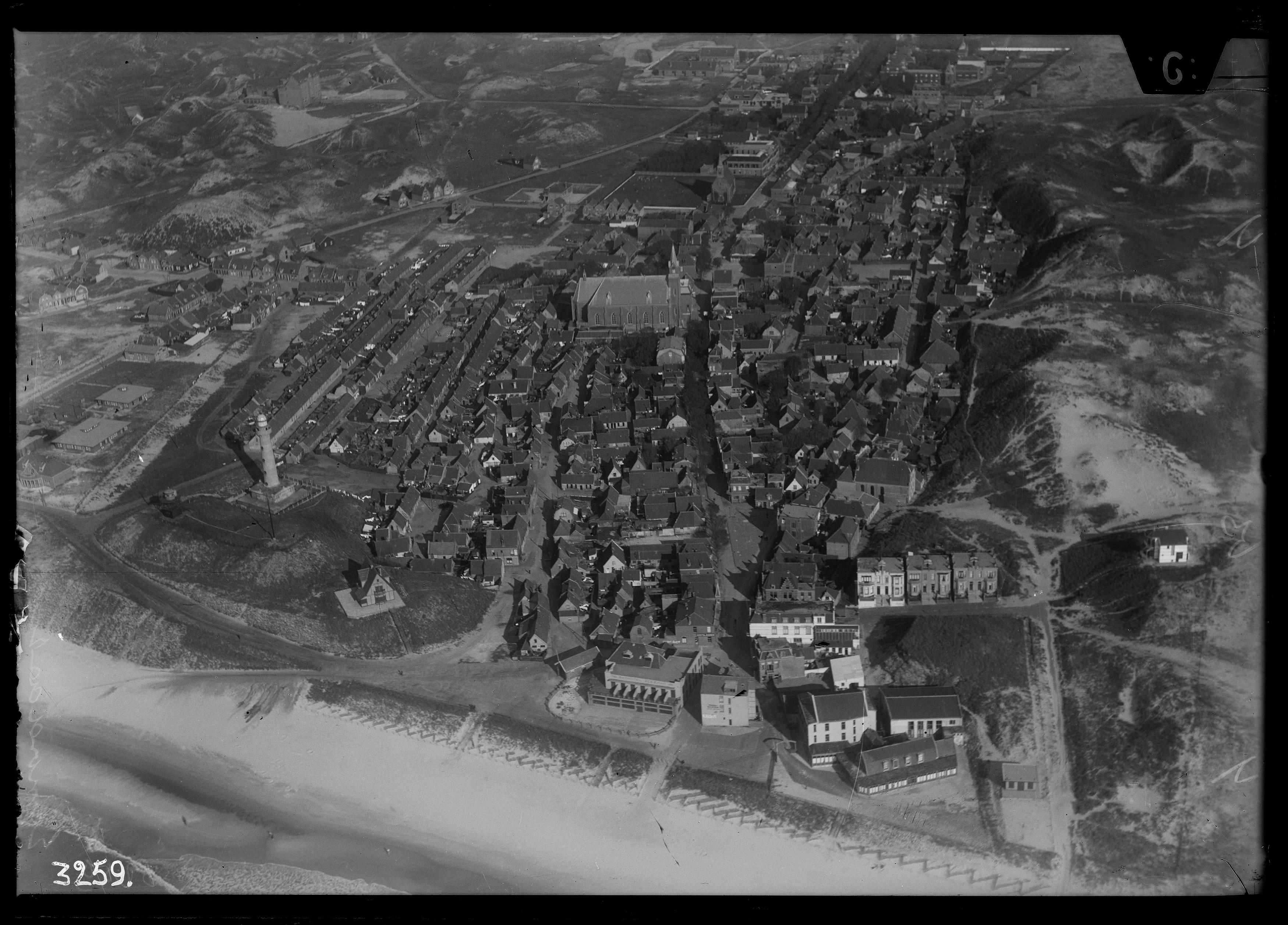 Aerial photograph of Egmond, The Netherlands